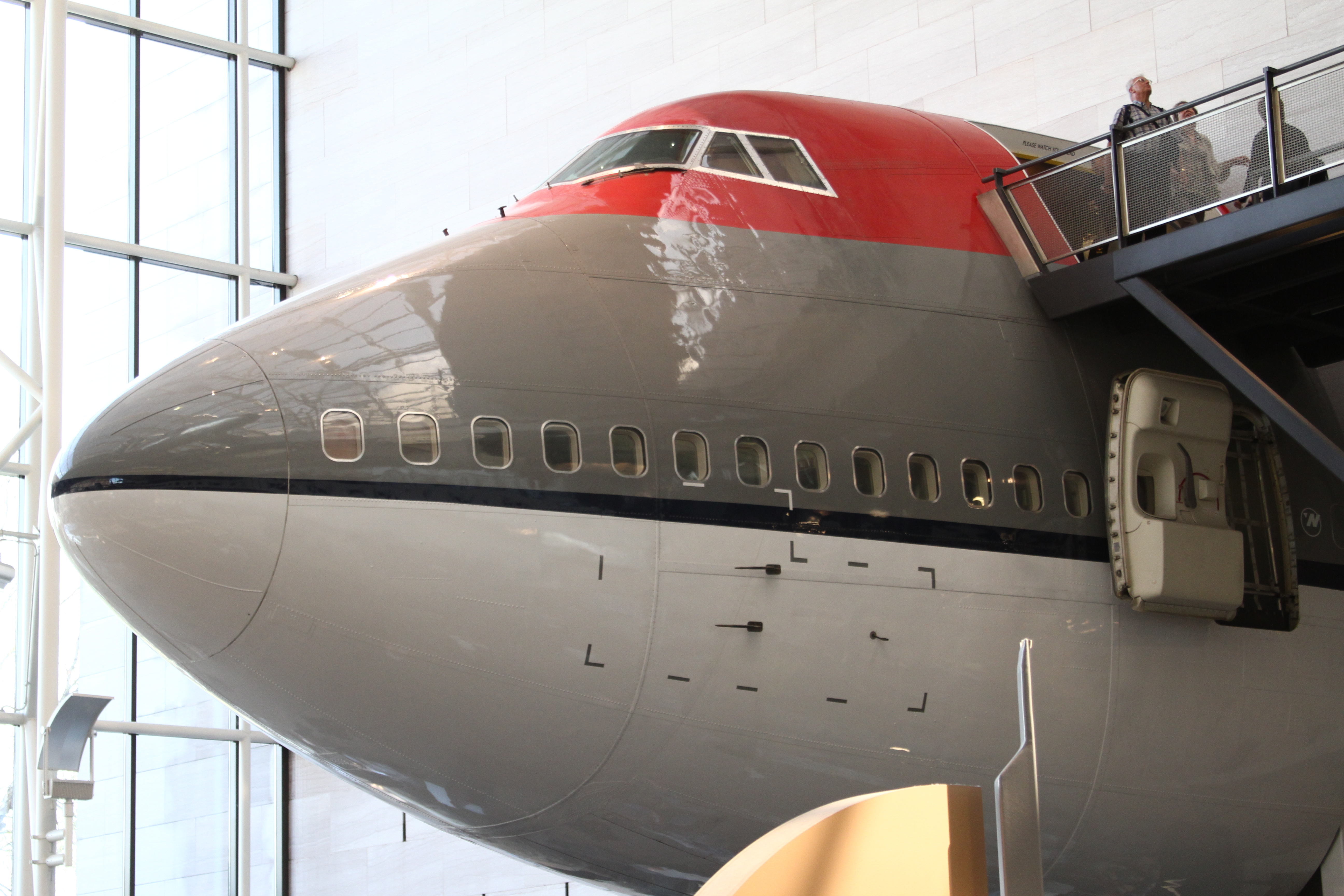 Boeing 747 nose section displayed in the Smithsonian's National Air and Space Museum